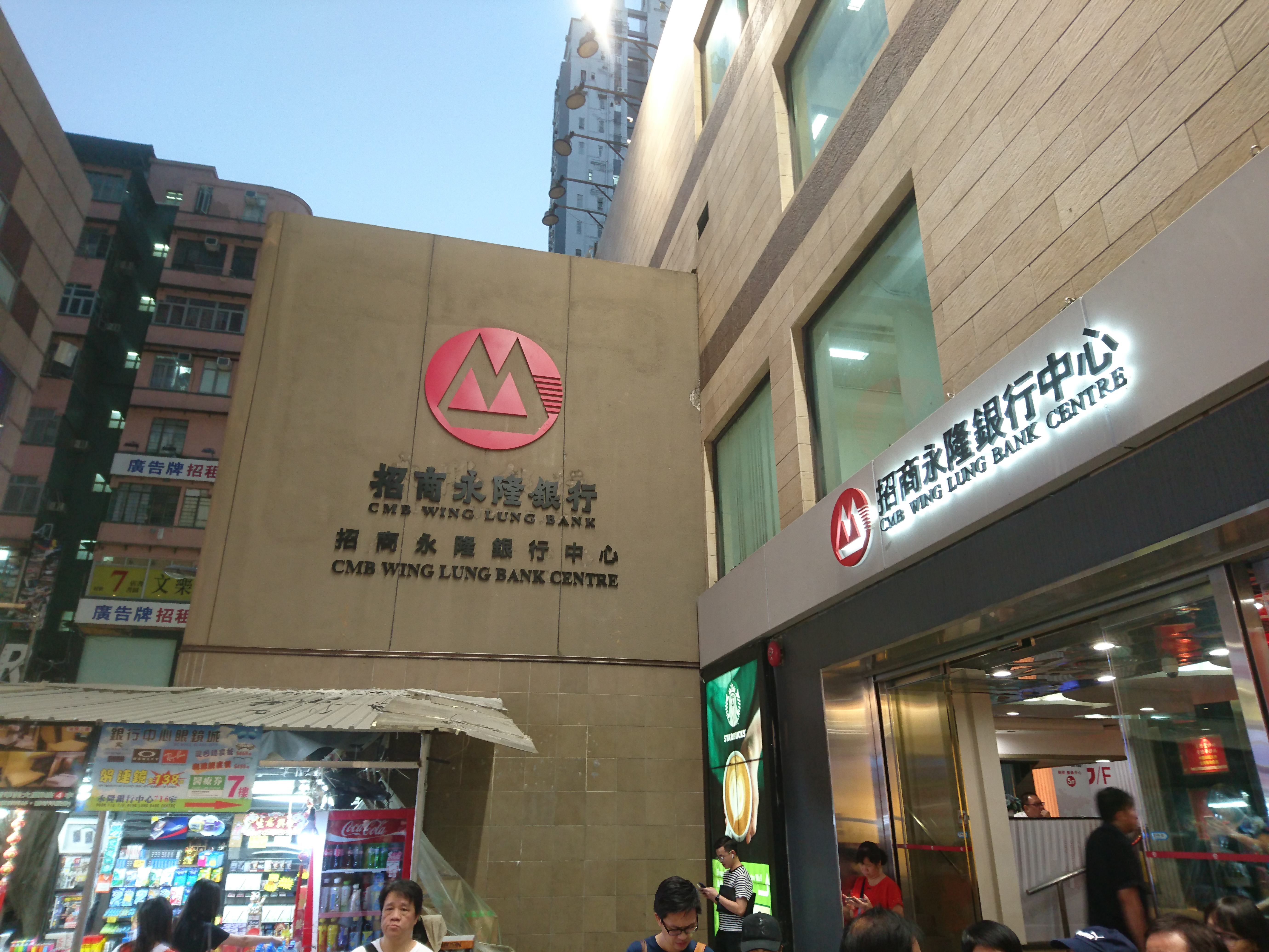 CWB Wing Lung Bank Centre